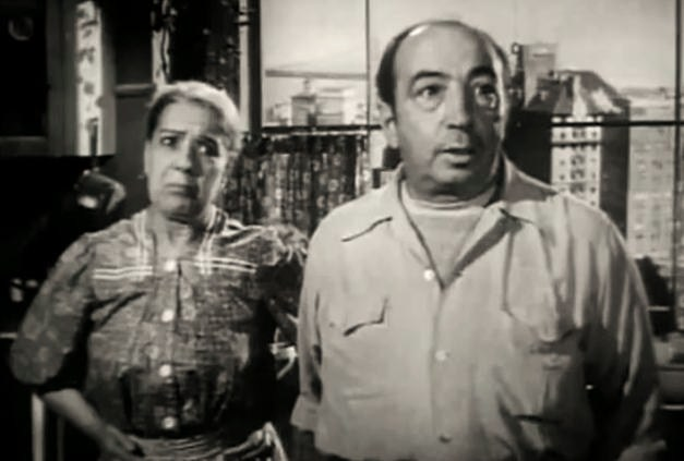 Mimi Aguglia and Tito Vuolo in The Man Who Cheated Himself (1950) - cropped screenshot